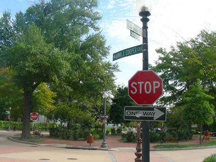 Anna J. Cooper Circle, as seen from T Street, NW (just west of Anna Cooper Circle, looking east).